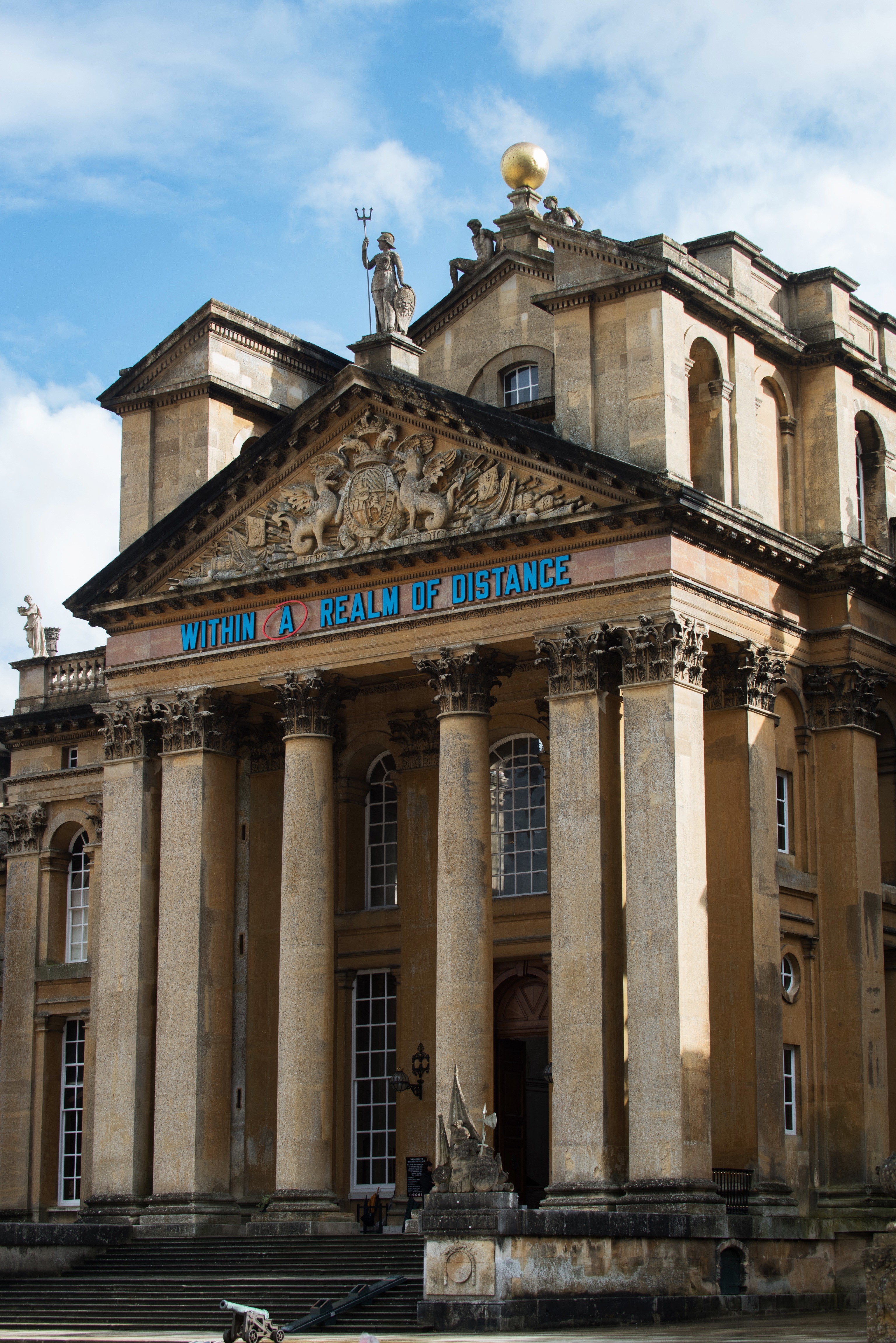 Lawrence Weiner's 'Within a Realm of Distance' (2015) on the facade of Blenheim Palace. Courtesy of Blenheim Art Foundation. Photo: Hugo Glendinning